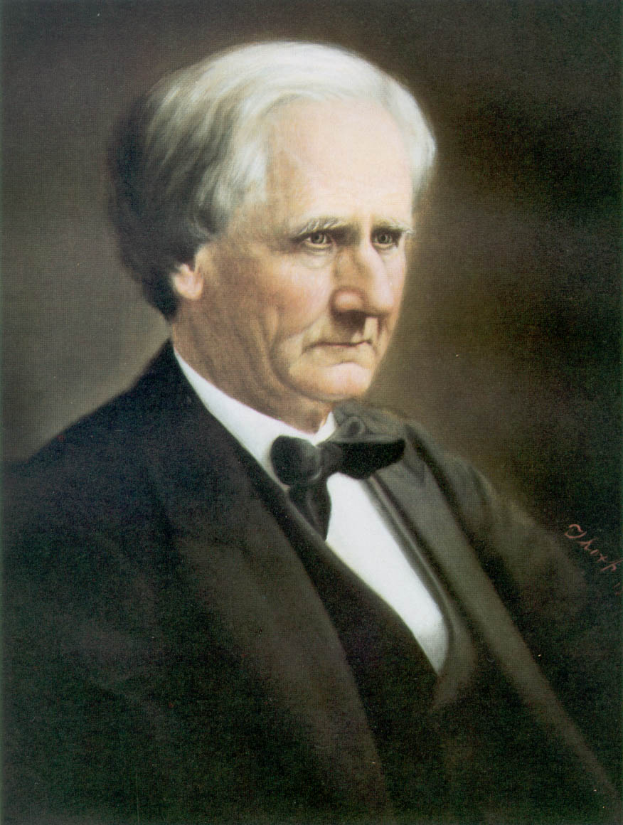 Simon Cameron, U.S. Secretary of War, painting by Freeman Thorp